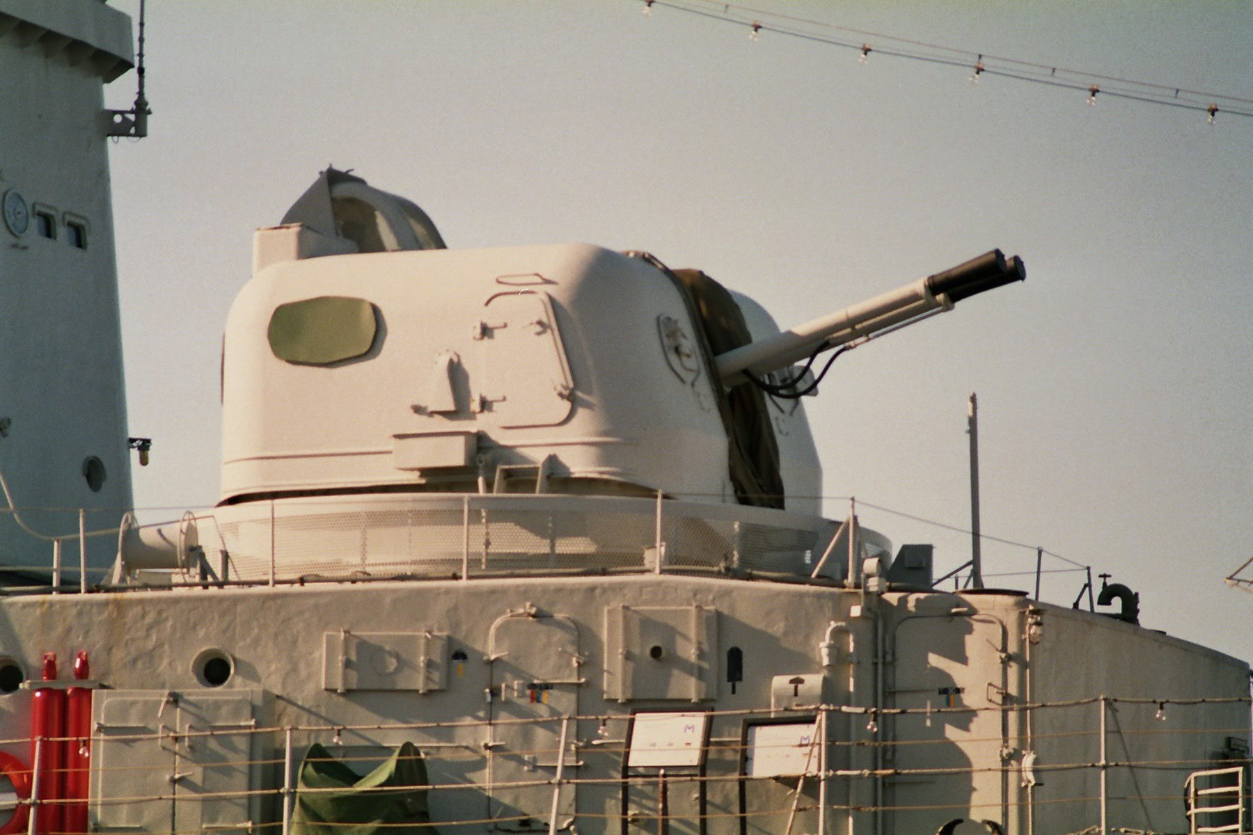 Bofors double 57 mm automatic gun on Swedish destroyer HMS Småland.